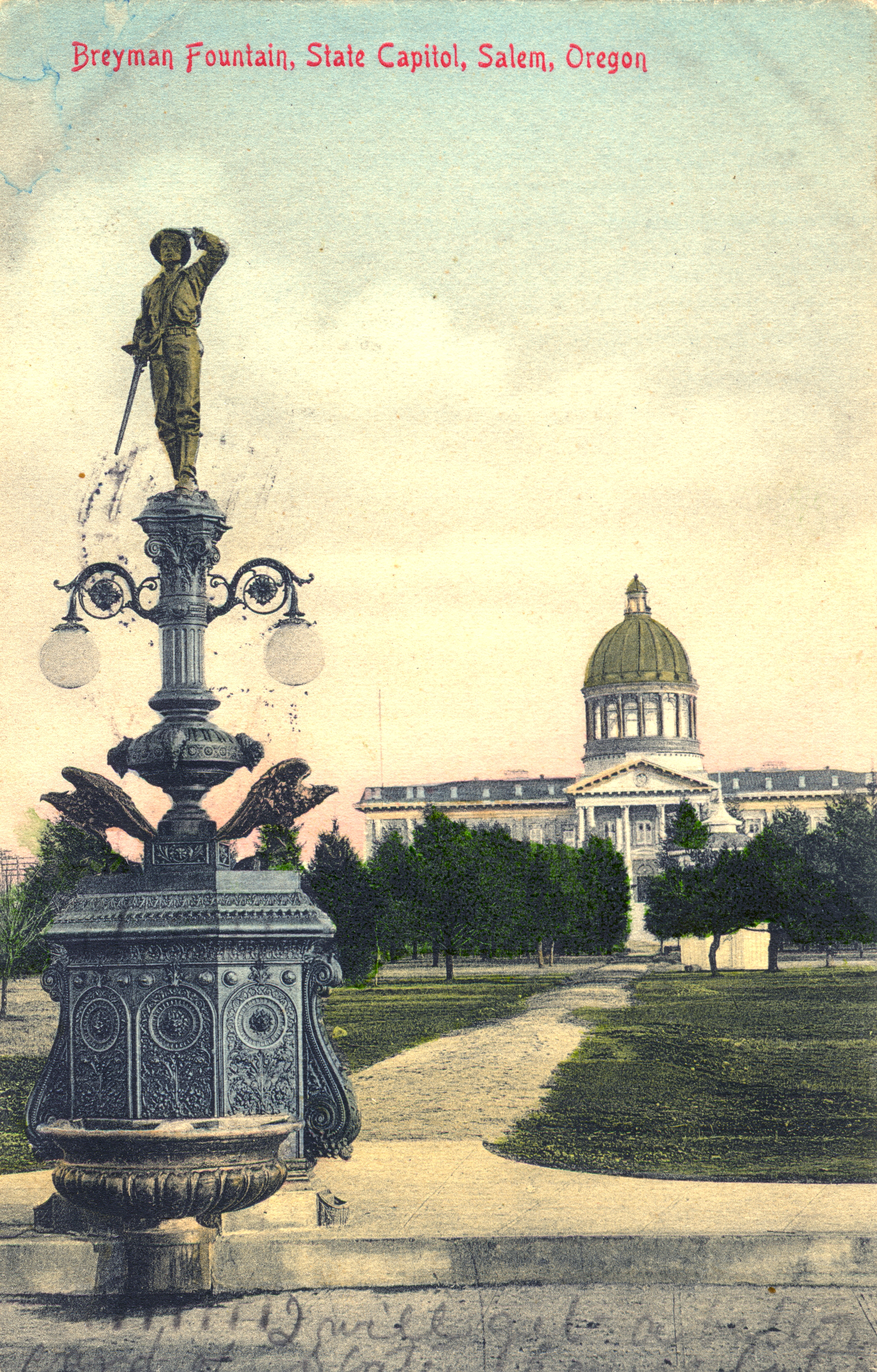 Original Collection: Gerald W. Williams Collection You can find this image by searching for the item number by clicking here. Want more? You can find more digital resources online. We're happy for you to share this digital image within the spirit of The Commons; however, certain restrictions on high quality reproductions of the original physical version may apply. To read more about what “no known restrictions” means, please visit the Special Collections & Archives website, or contact staff at the OSU Special Collections & Archives Research Center for details.